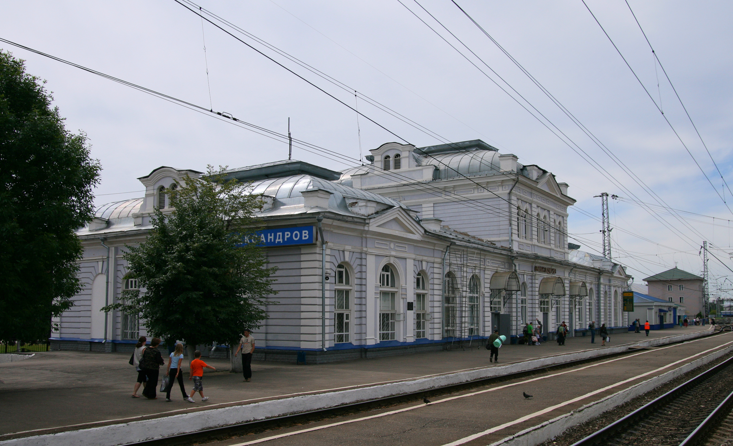 Train station in Alexandrov, 1903